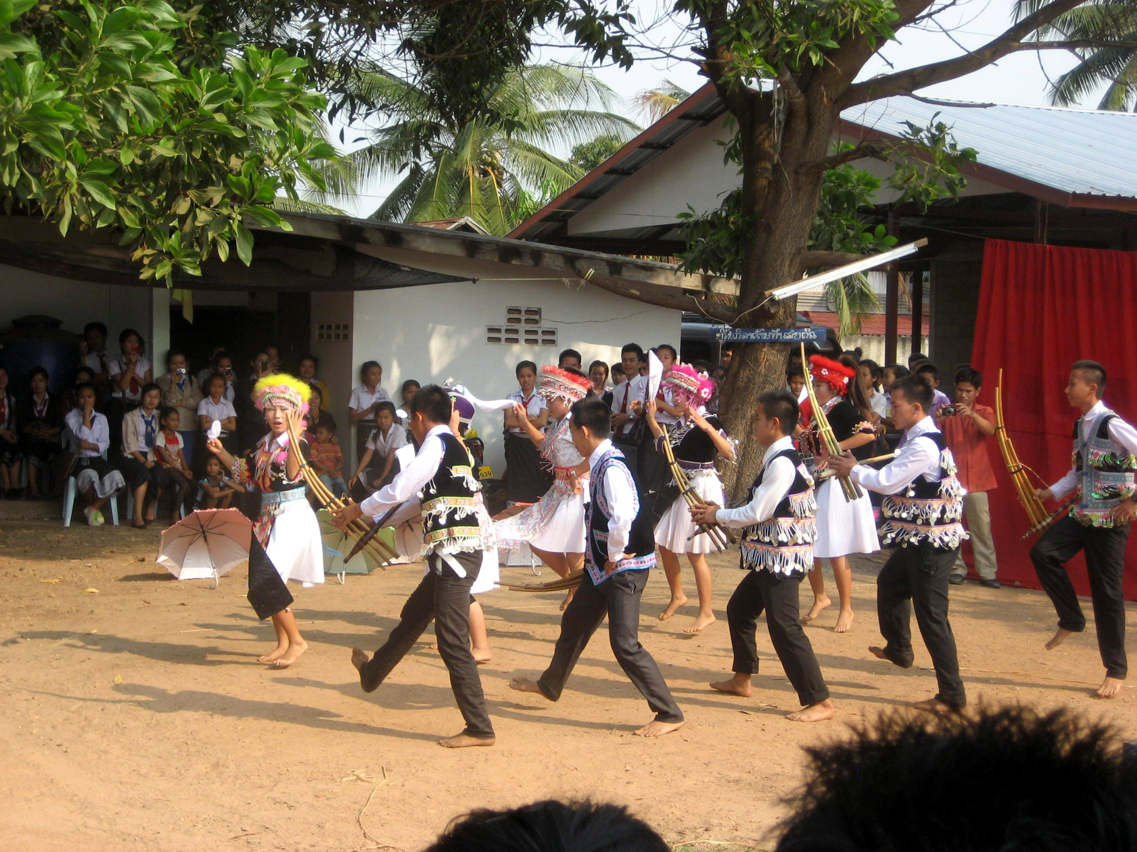 Students perform a traditional Hmong dance at a high school on the outskirts of Vientiane, Laos. The Hmong are one of the largest ethnic minorities in Laos, making up about 8-10% of the population. Some of the boys hold a khene (khaen), a traditional pipe instrument. In this dance, it is used more as a prop than as a musical instrument. The dance performance was done in appreciation to Big Brother Mouse, a literacy project that had visited the school that day with books and interactive educational activities.